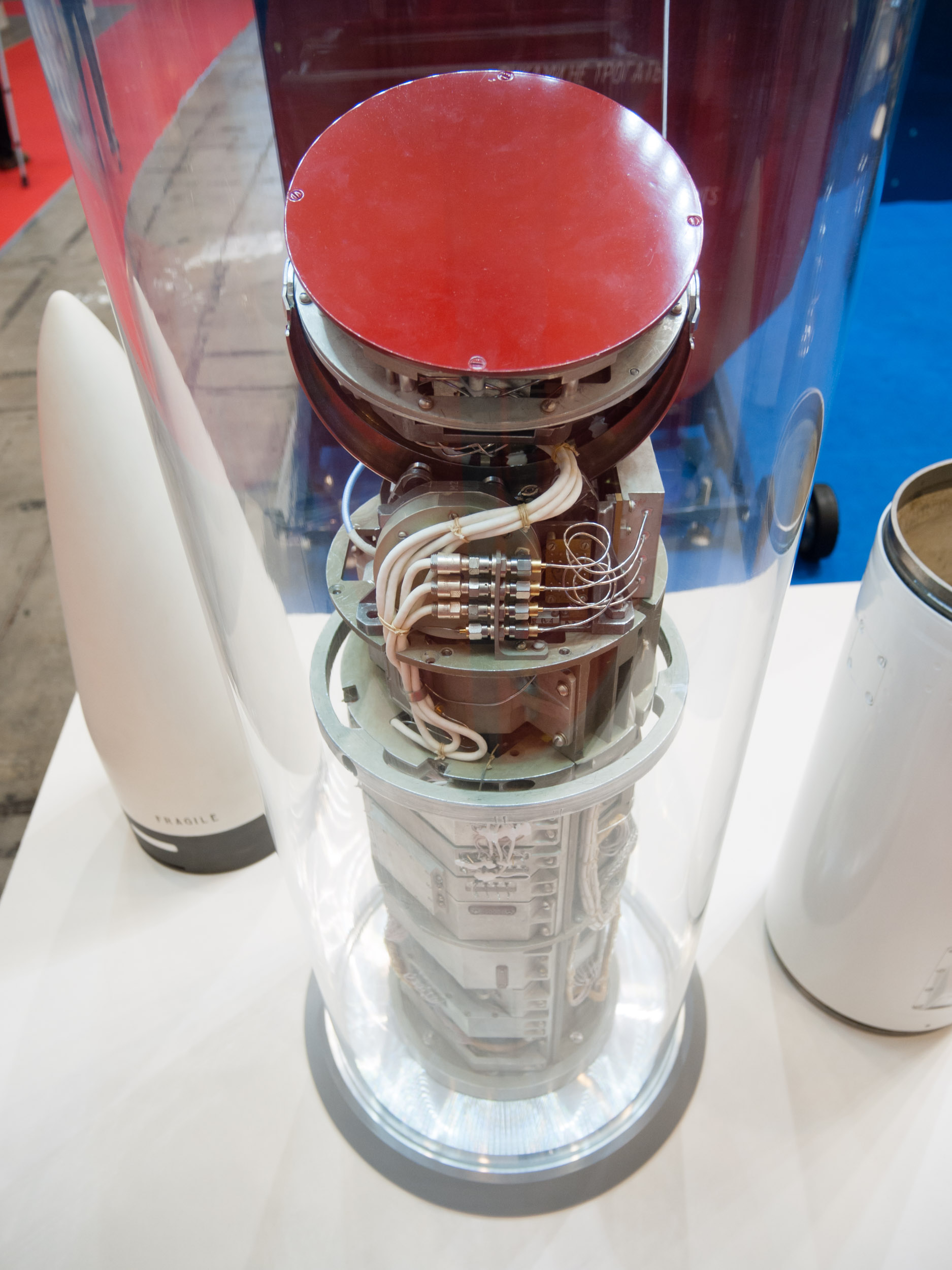 Oniks active radar homing head by Radionix, 'Zbroya ta Bezpeka' military fair, Kyiv, Ukraine, 2018